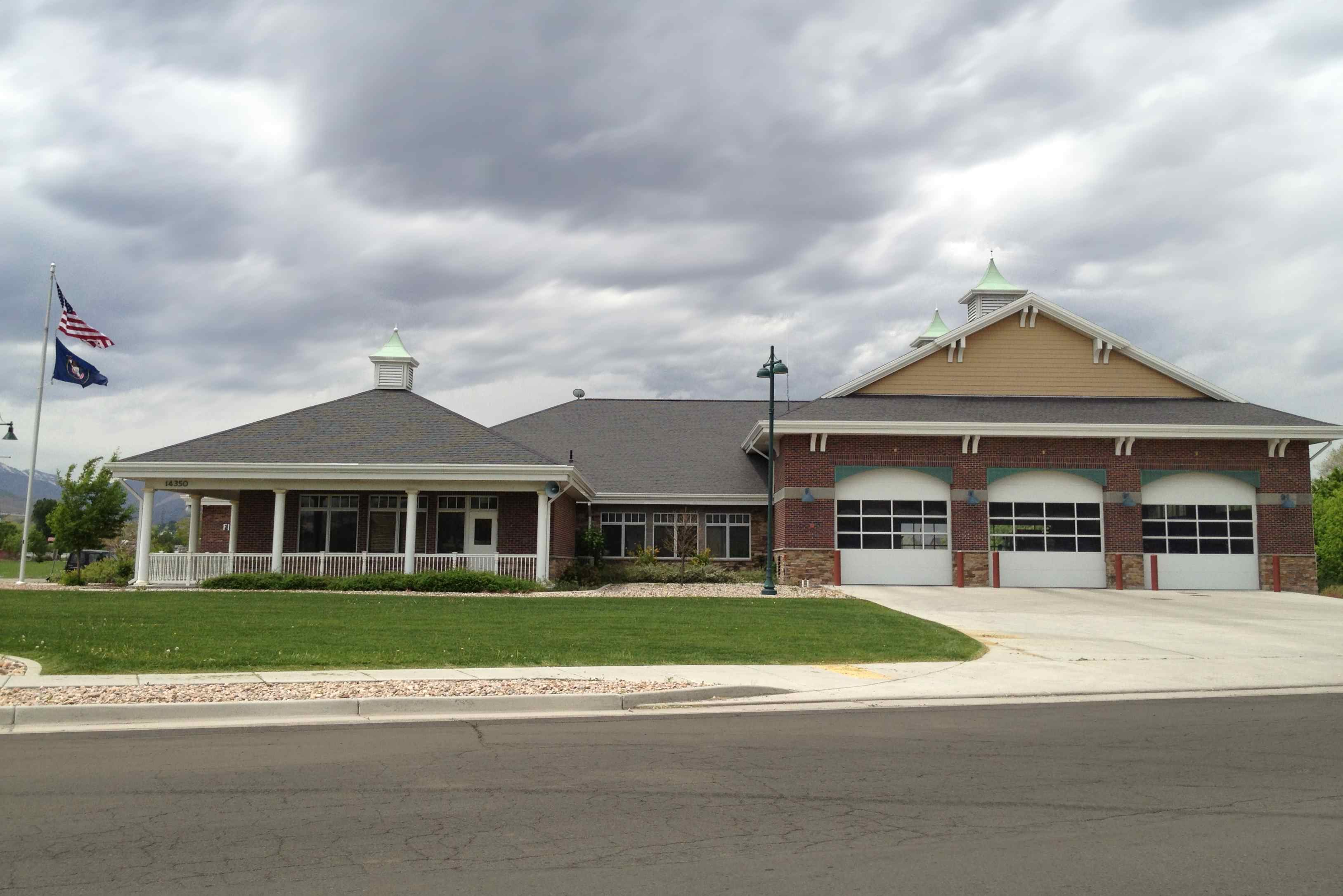 City of Bluffdale Fire Station, located at 14350 S 2200 W in Bluffdale, Utah.